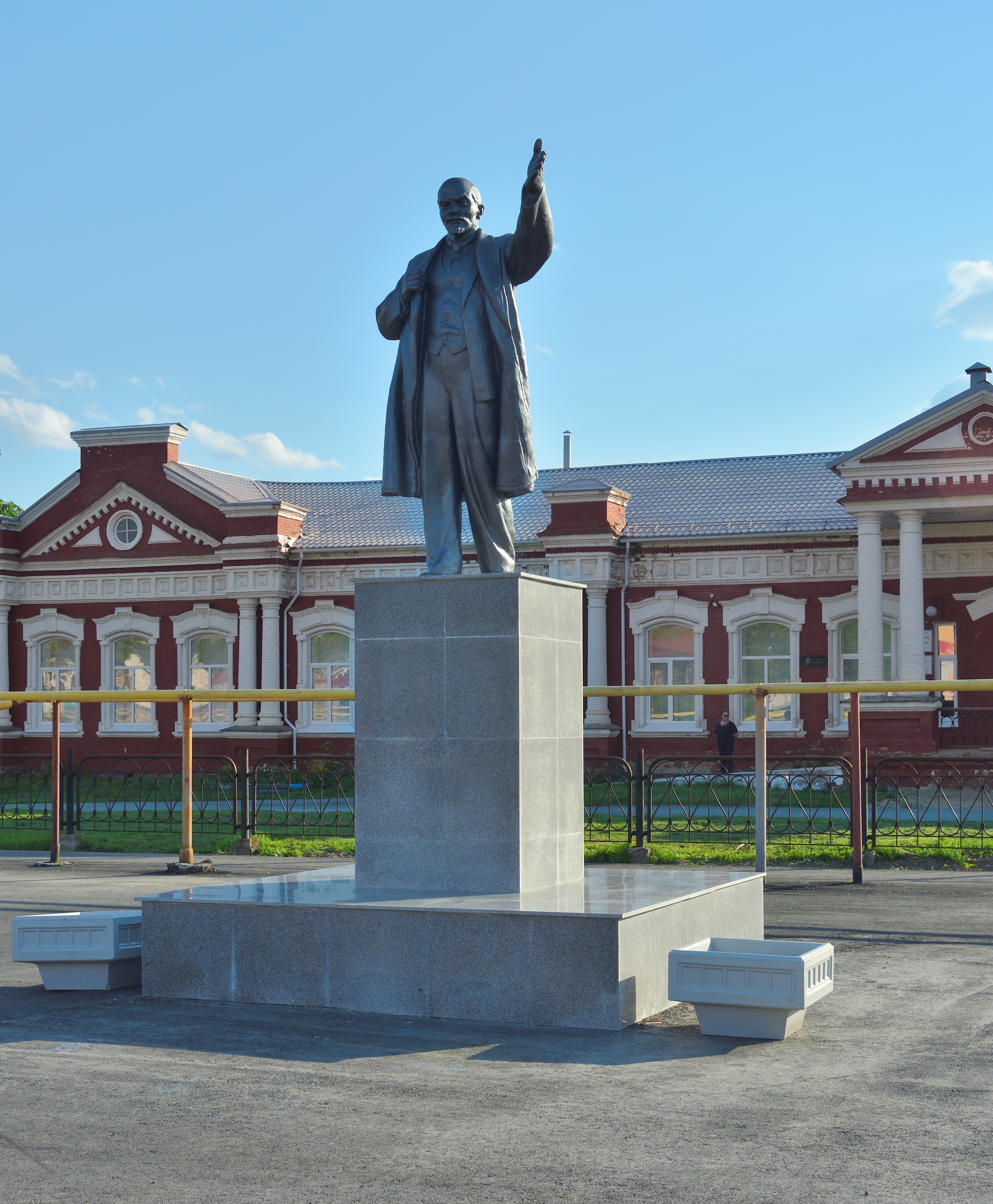 Lenin statue in Verkh-Neyvinsky, Sverdlovsk oblast, Russia